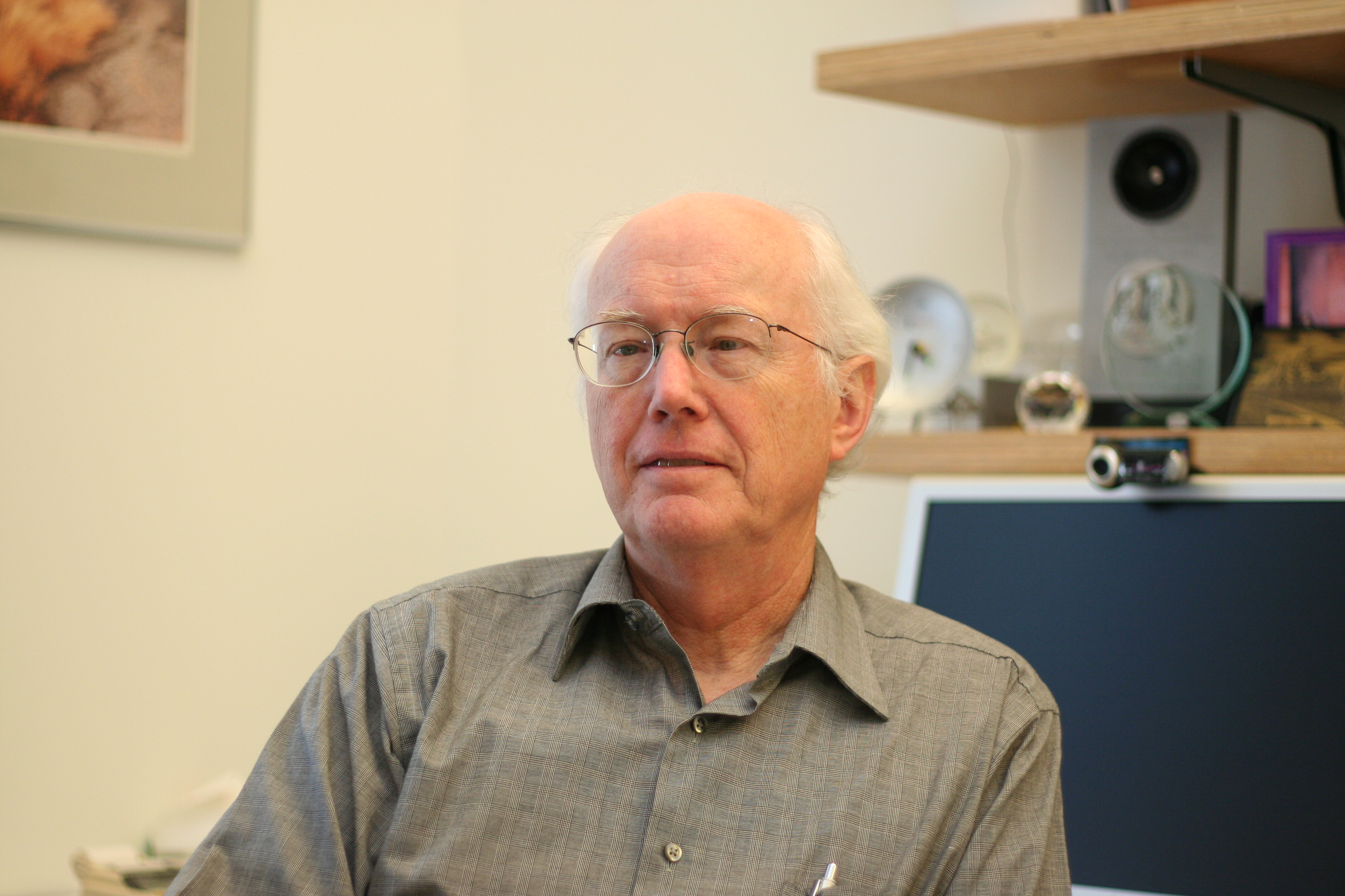 David D. Clark in his office at MIT.